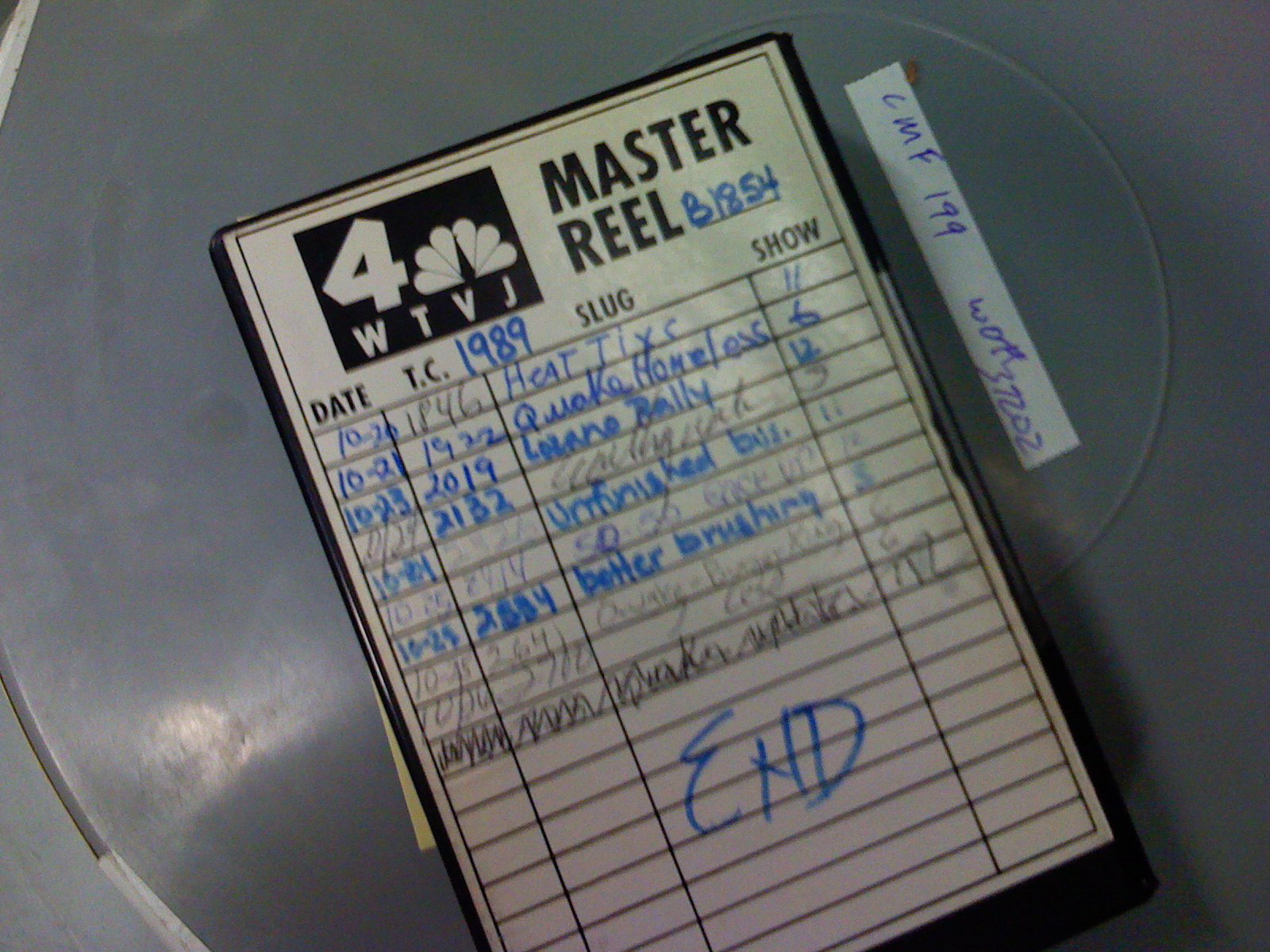 Archived WTVJ news tape